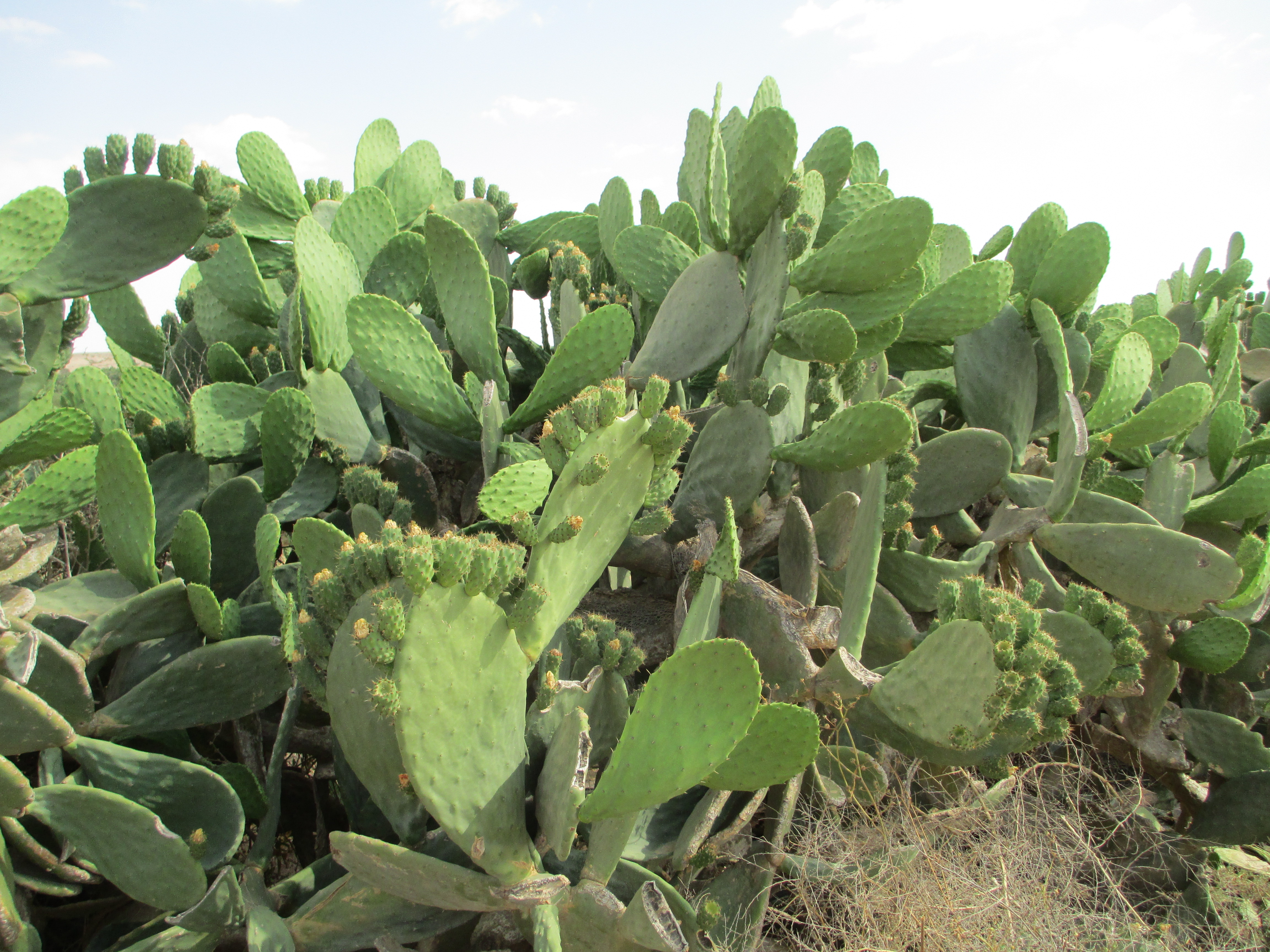 The Orly Cactus Pear Farm